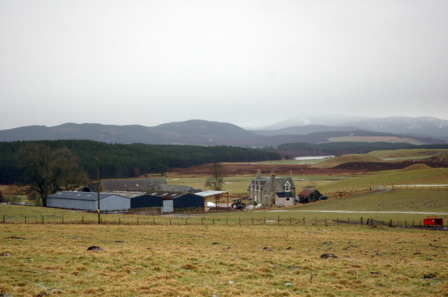 Achnahannet One of the three farms in close proximity here.